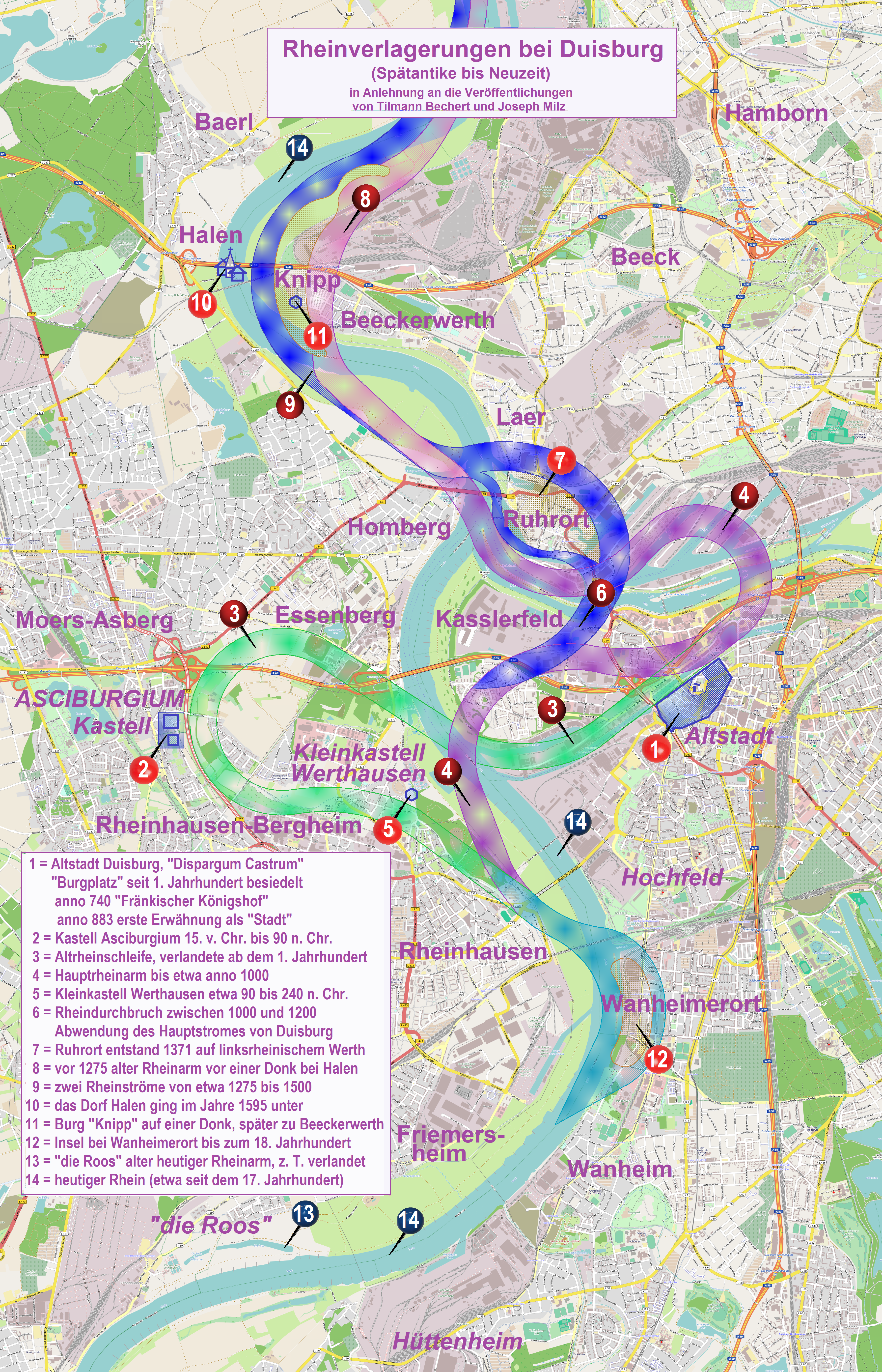 This map of Rheinverlagerungen bei Duisburg Spätantike bis Neuzeit was created from OpenStreetMap project data, collected by the community. This map may be incomplete, and may contain errors. Don't rely solely on it for navigation.